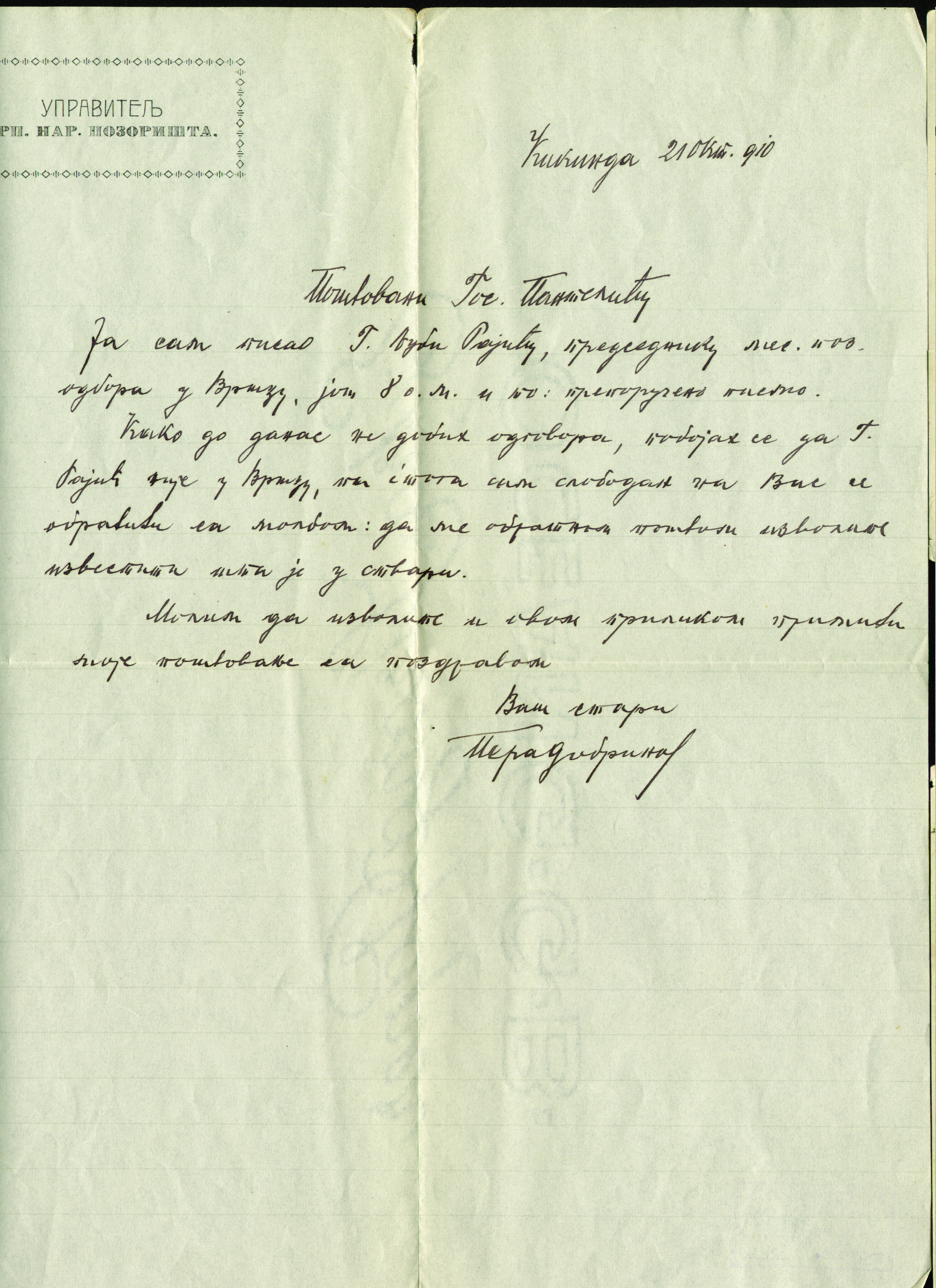 Letter from actor Pera Dobrinović to teacher Maksa Pantelić, Kikinda, October 21,1910 Srpski (latinica): Pismo glumca Pere Dobrinovića učitelju Maksi Panteliću Kikinda, 21. oktobra 1910. Српски (ћирилица): Писмо глумца Пере Добриновића учитељу Макси Пантелићу, Кикинда, 21. октобра 1910.